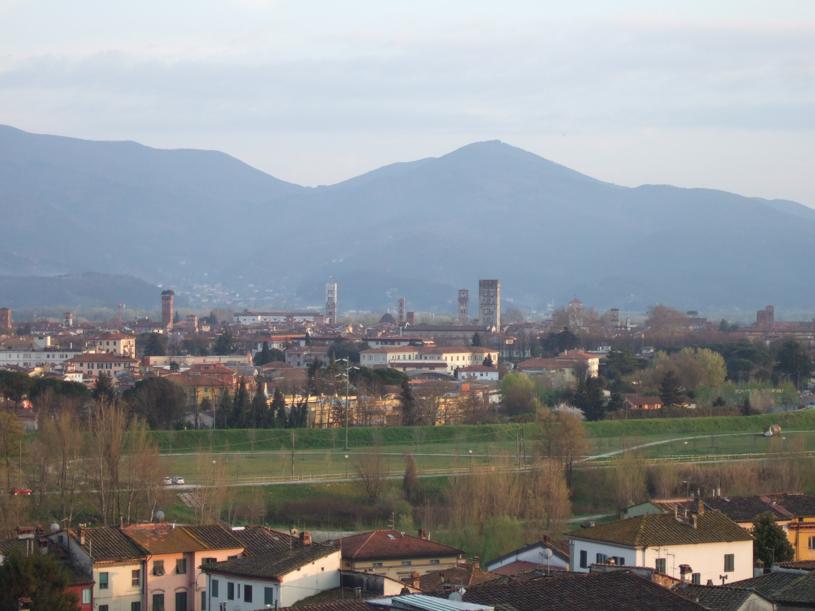 Landscape with Lucca Towers and Steeples from Pieve San Quirico